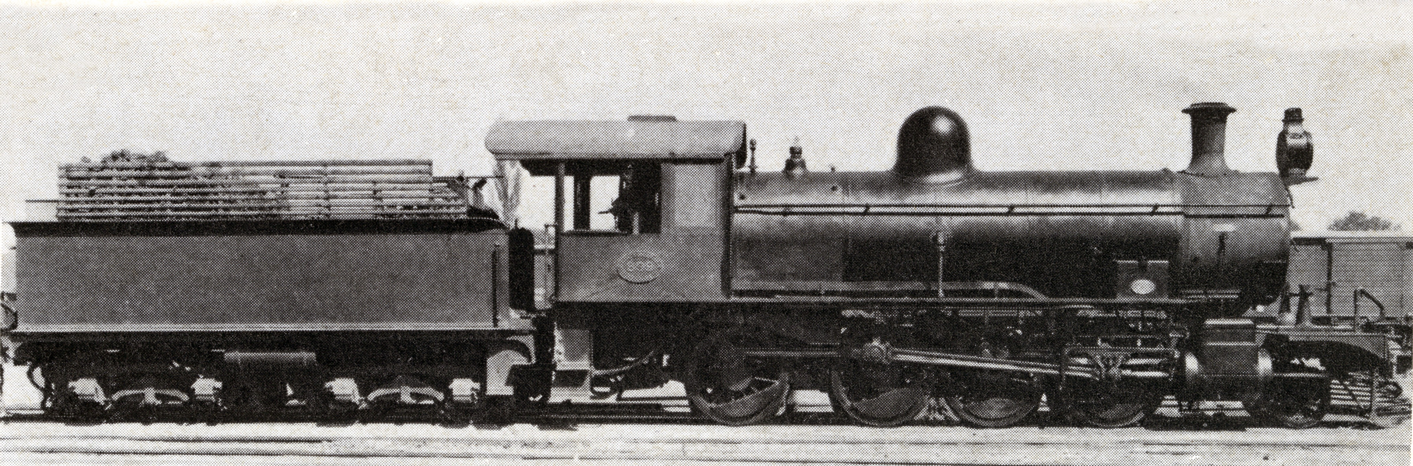 Ex Cape Government Railways Class 8 no. 820 (2-8-0) South African Railways Class 8Y no. 899 (2-8-0) Builder's Number: Kitson 4201/1903 Location: Beaufort West, Cape Province